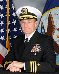 Official portrait of USS Ronald Reagan executive officer CDR Brett E. Crozier